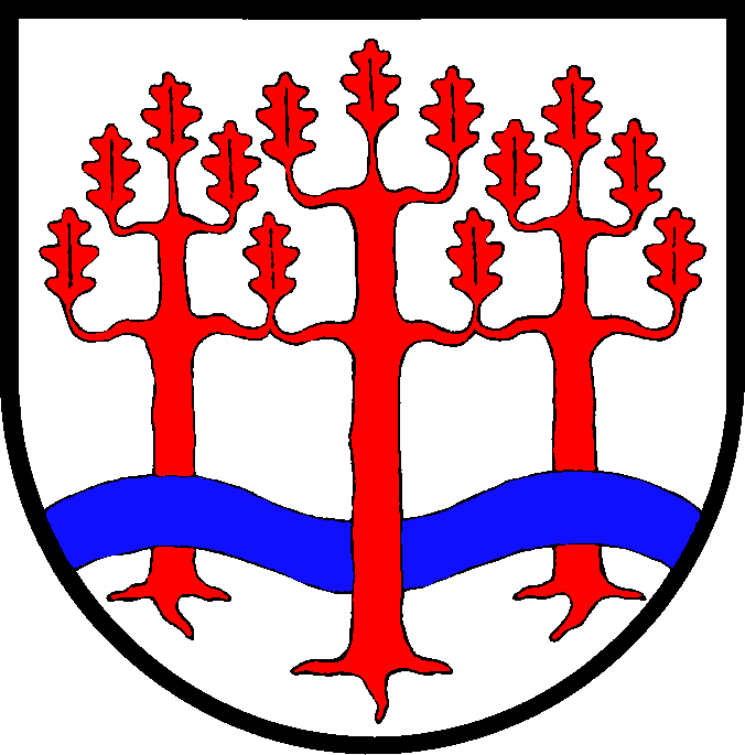 Coat of arms of the municipality Holzdorf in Schleswig-Holstein, Germany.